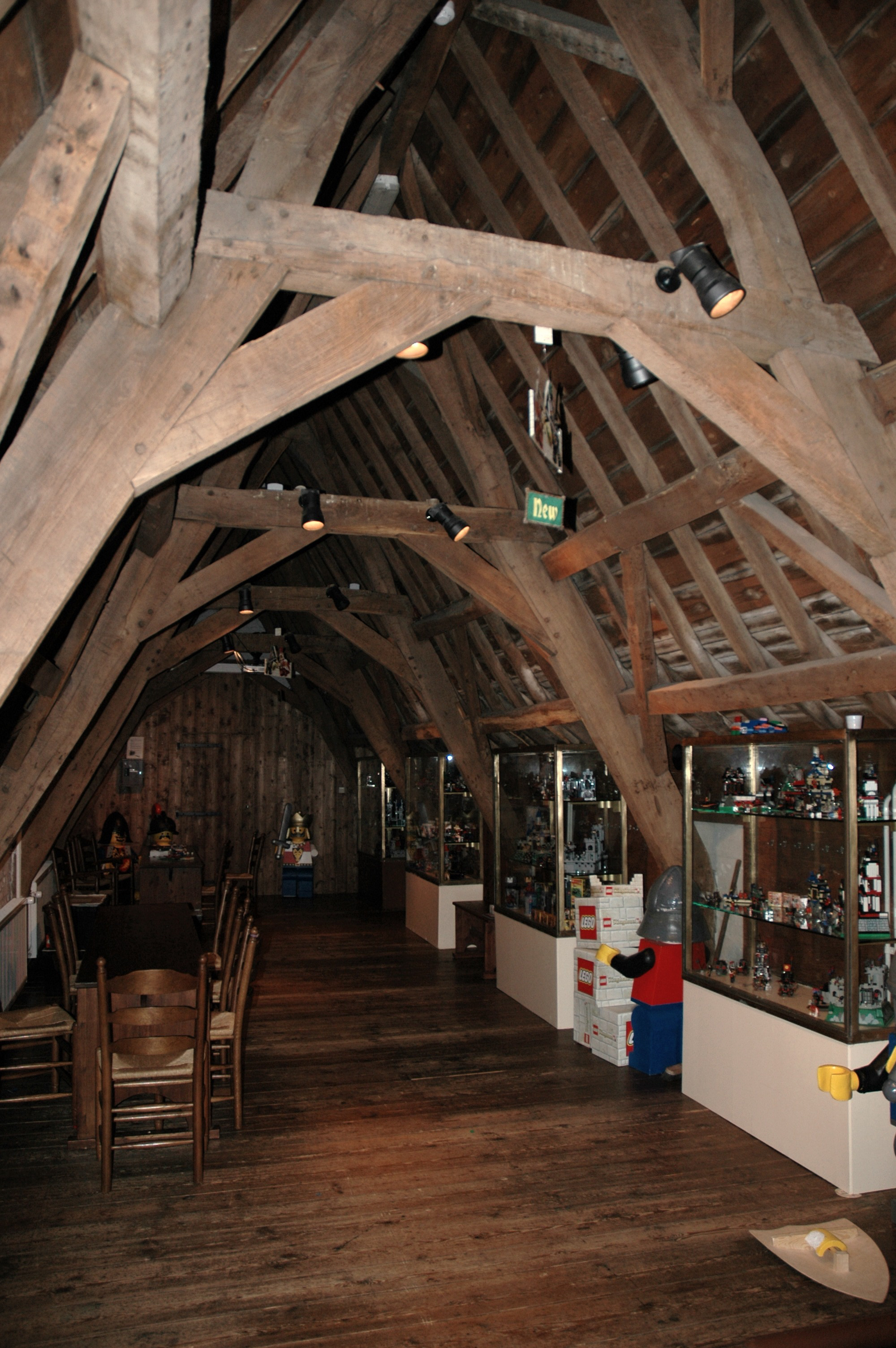 Hoensbroek Castle - small attic (kleine zolder)